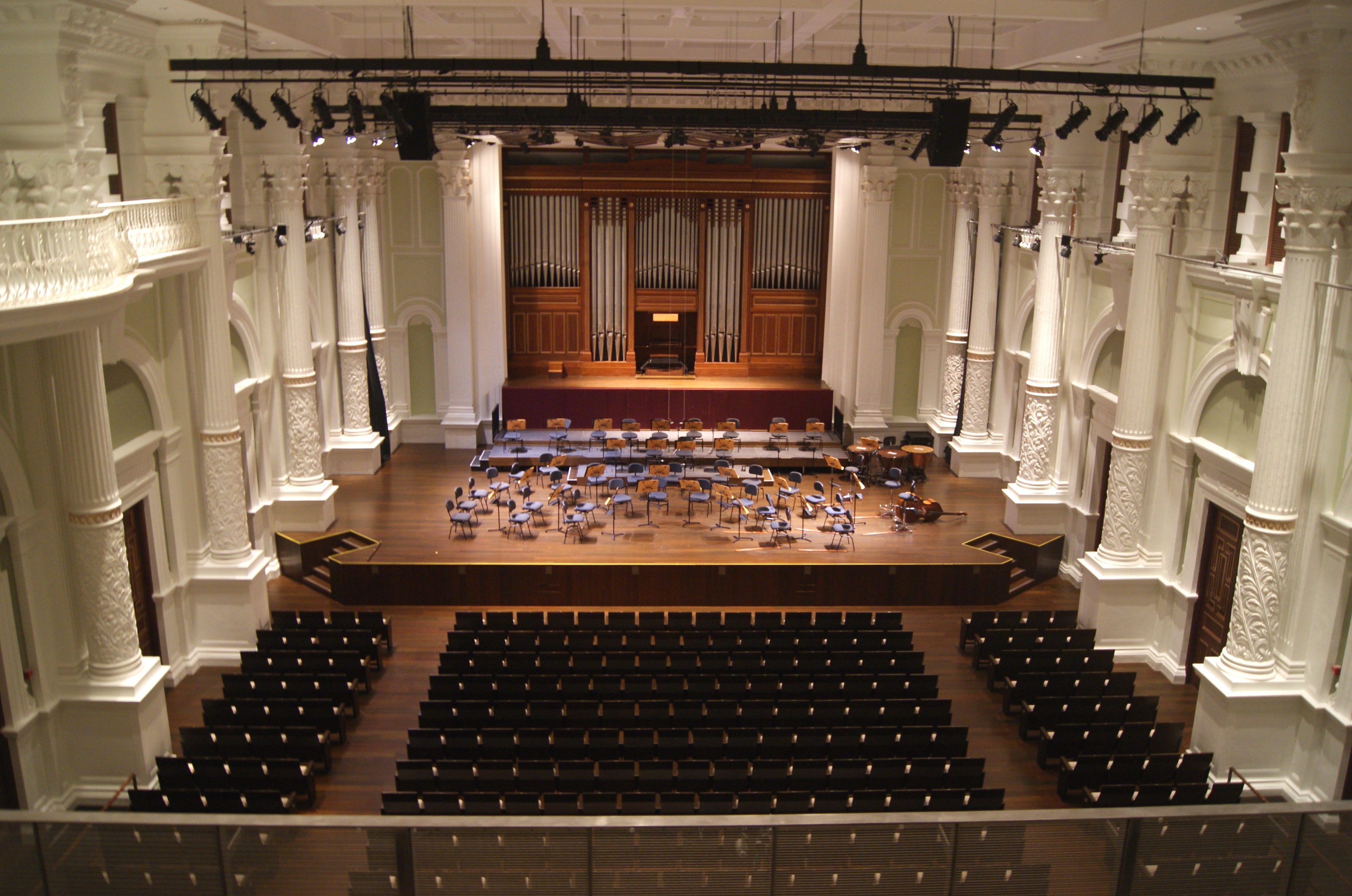 The interior Victoria Concert Hall, Singapore, seen from the circle section after the building reopened on 15 July 2014 following renovations.